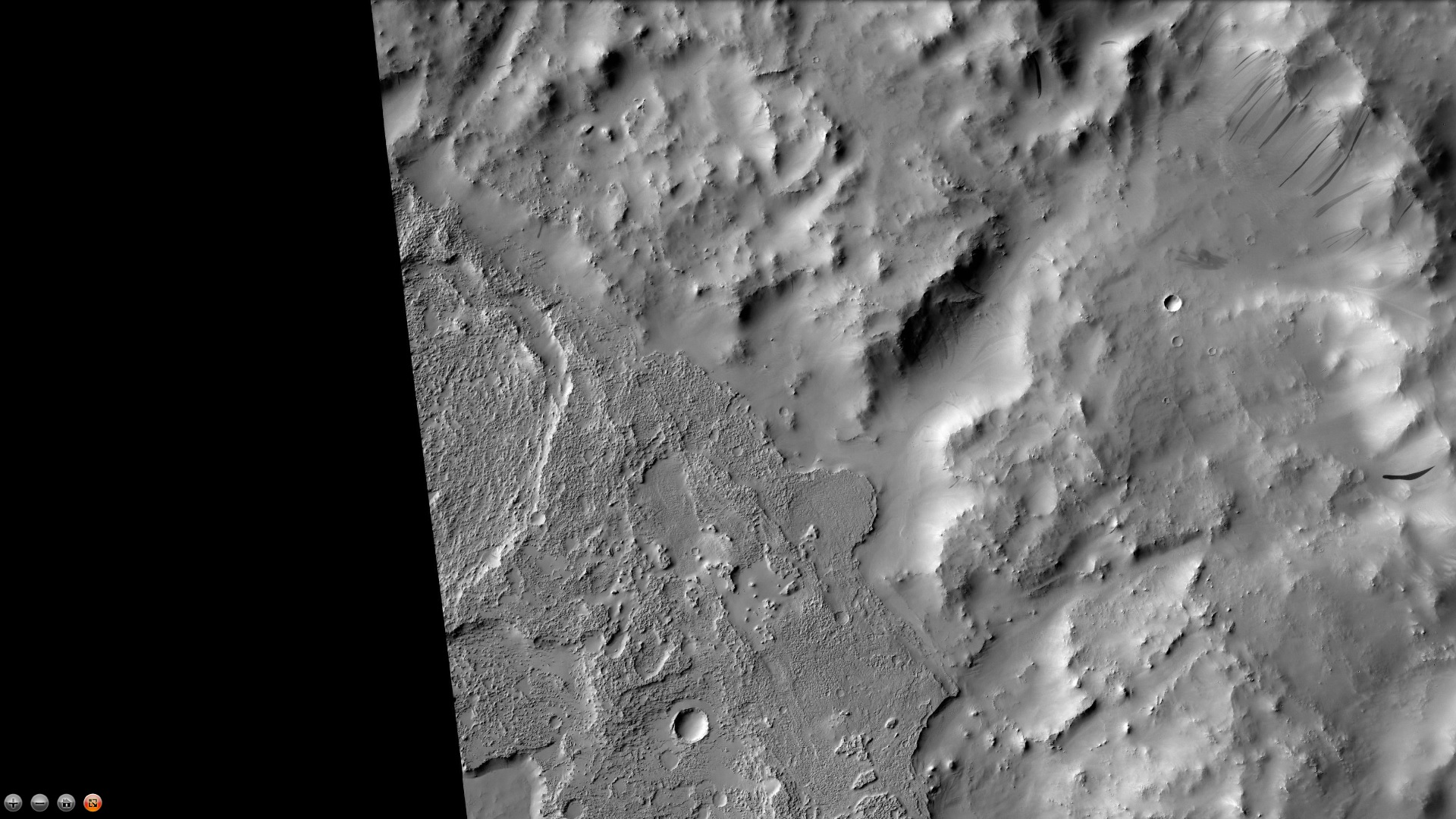 Eastern side of Janssen Crater showing layers and streaks, as seen by CTX